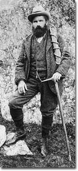 Mathias Zurbriggen